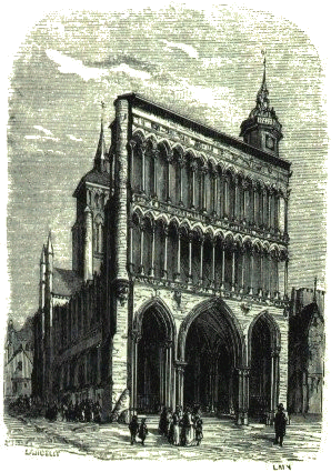 église Notre-Dame de Dijon as it appeared in the early XIXth century